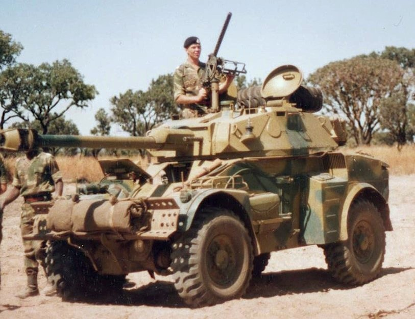 Cropped version of a previous Commons image. RhodesianEland Mk7 in Inkomo Barracks, Rhodesia (Zimbabwe) 1979. This file has been extracted from another file: Rhodesian Eland and T-55.jpg